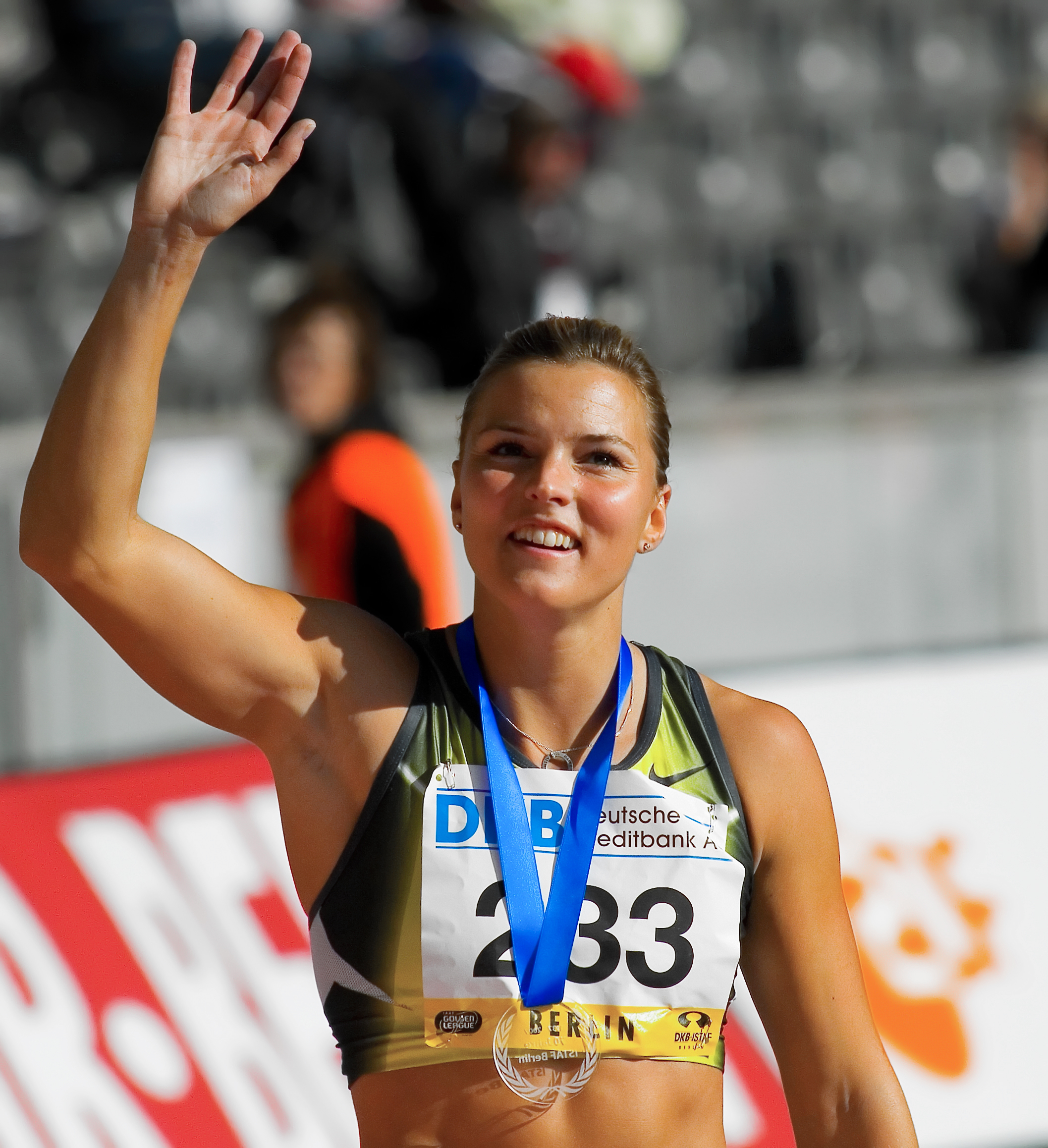 Swedish hurdler Susanna Kallur at the 2007 Internationales Stadionfest